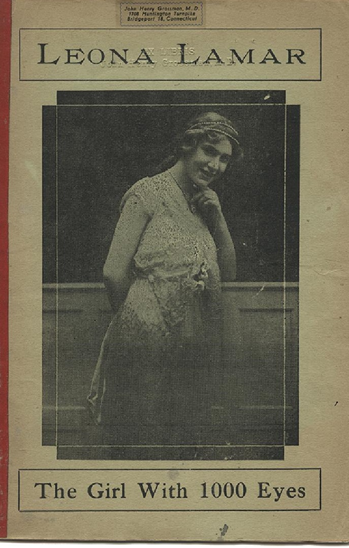 publicity photo of American mentalist and vaudeville performer Leona Lamar, circa 1921.